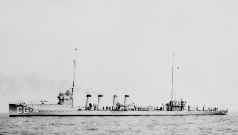 The U.S. Coast Guard cutter USCGC Downes (CG-4), ex-USS Downes (DD-45).